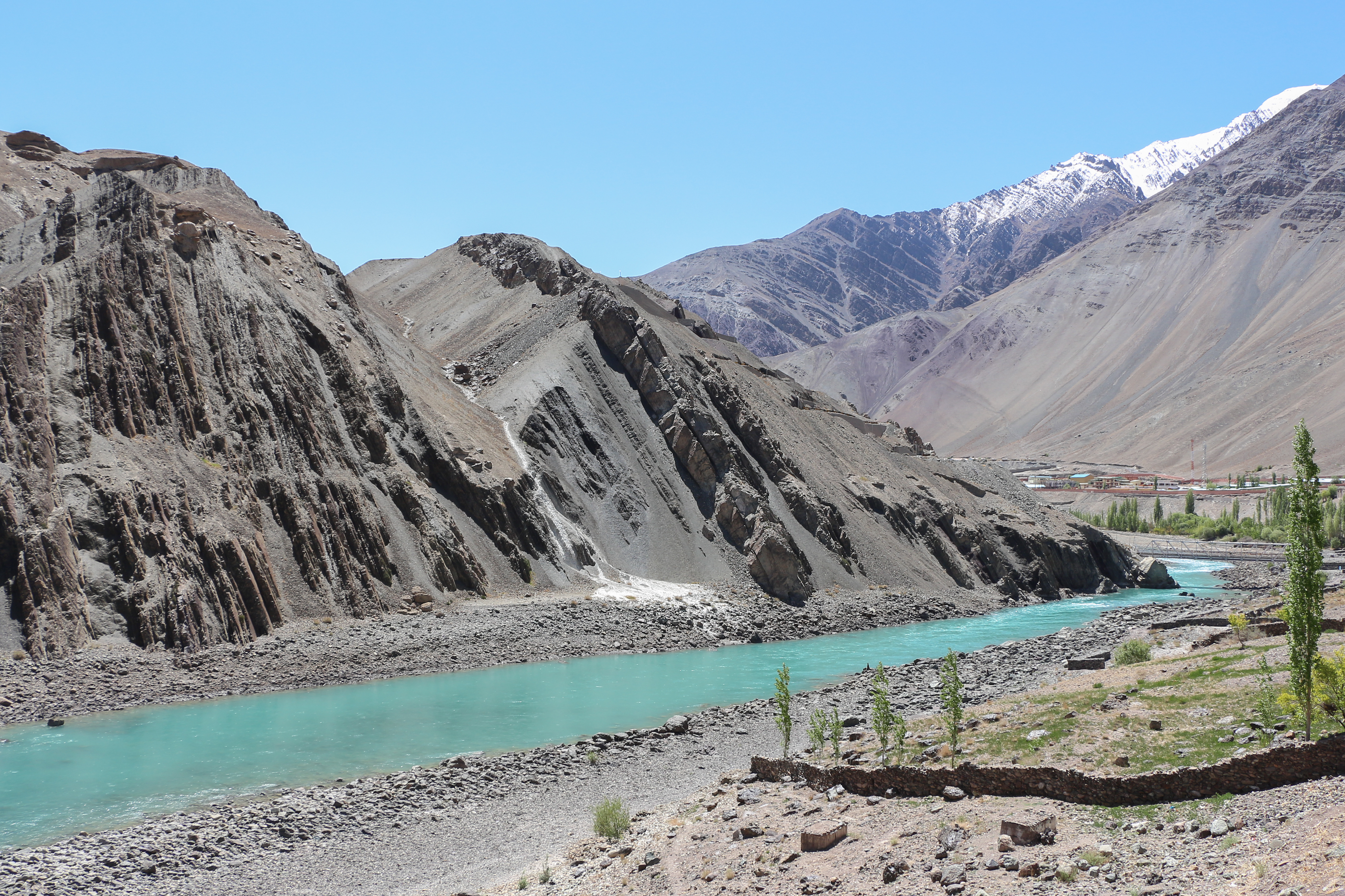 Indus River near Alchi, Ladakh, India